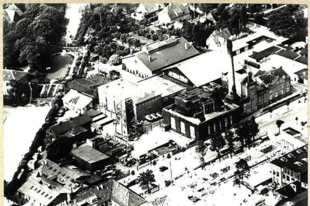 Krystalværket at the corner of Finsensvej and Nordre Fasanvej in Frederiksberg, Copenhagen, Denmark Danish: Krystalisværket ved Finsensvej. I forgrunden er Finsensvej 6-10 under opførelse. I nederste venstre hjørne ses hjørneejendommen Finsensvej 2-4 og Nordre Fasanvej 1-3